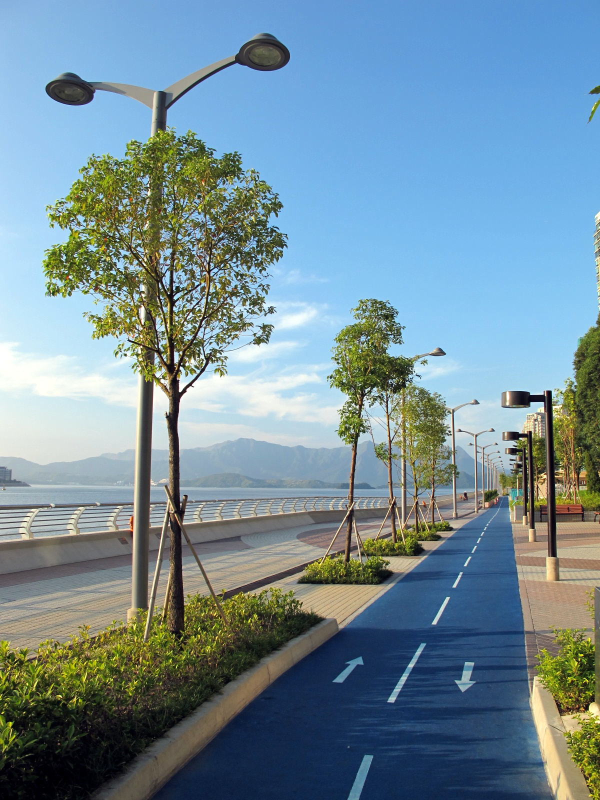 Ma On Shan Waterfront Promenade Jogging Trail 馬鞍山海濱長廊